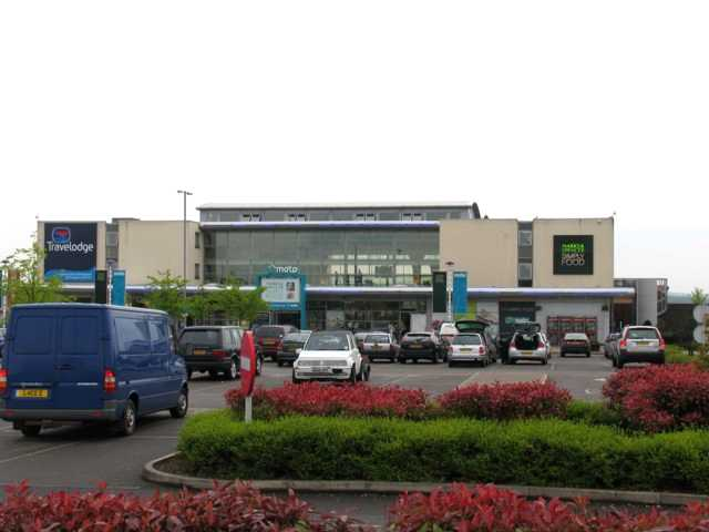 Castle Donington Services near to Diseworth, Leicestershire